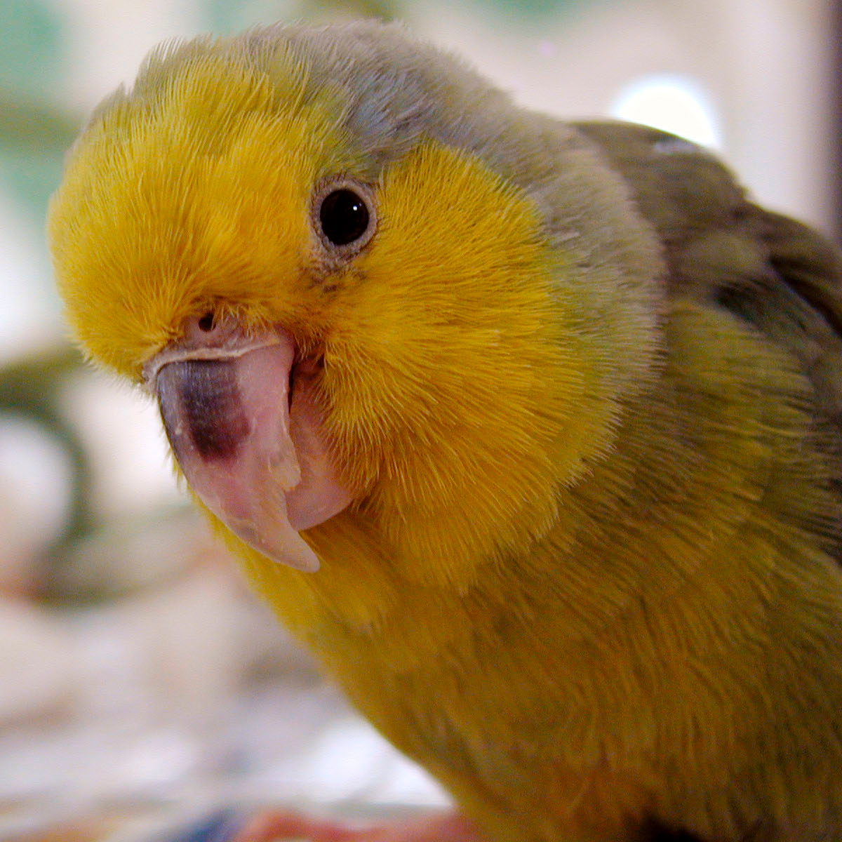 An adult male Yellow-faced Parrotlet; photograph shows upper body.